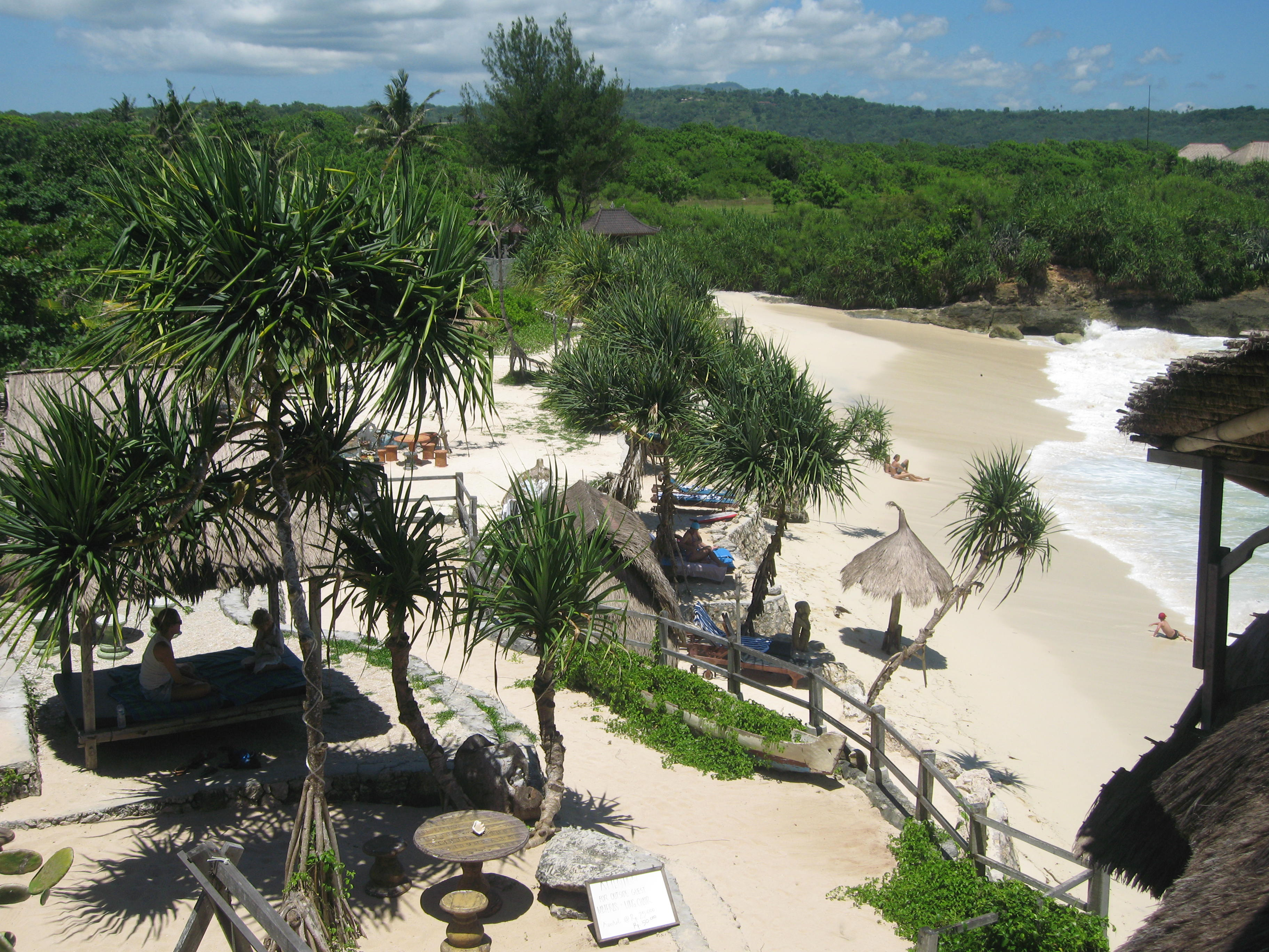 touches of Robinson Crusoe at Dream Beach. Dream Beach, Nusa Lembongan,Bali.